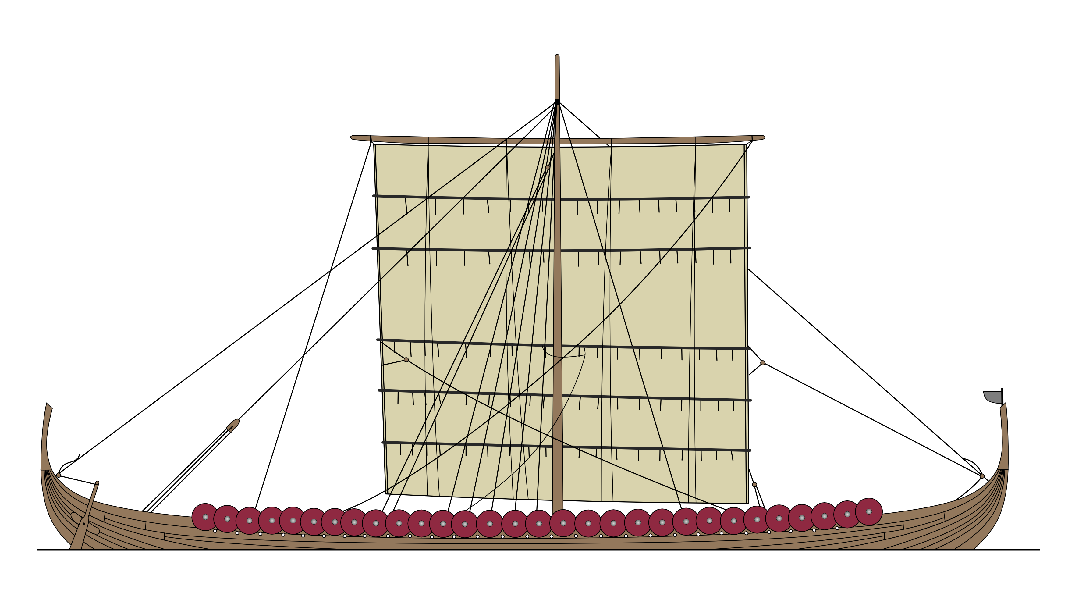 This is a picture of Viking Longboat made by Ningyou.